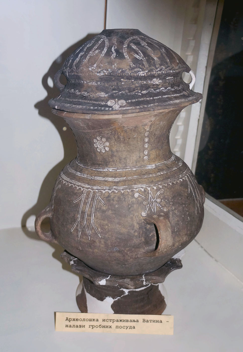 Vršac museum artefacts: a Vatin culture (Bronze Age) digged out dish, with lid.